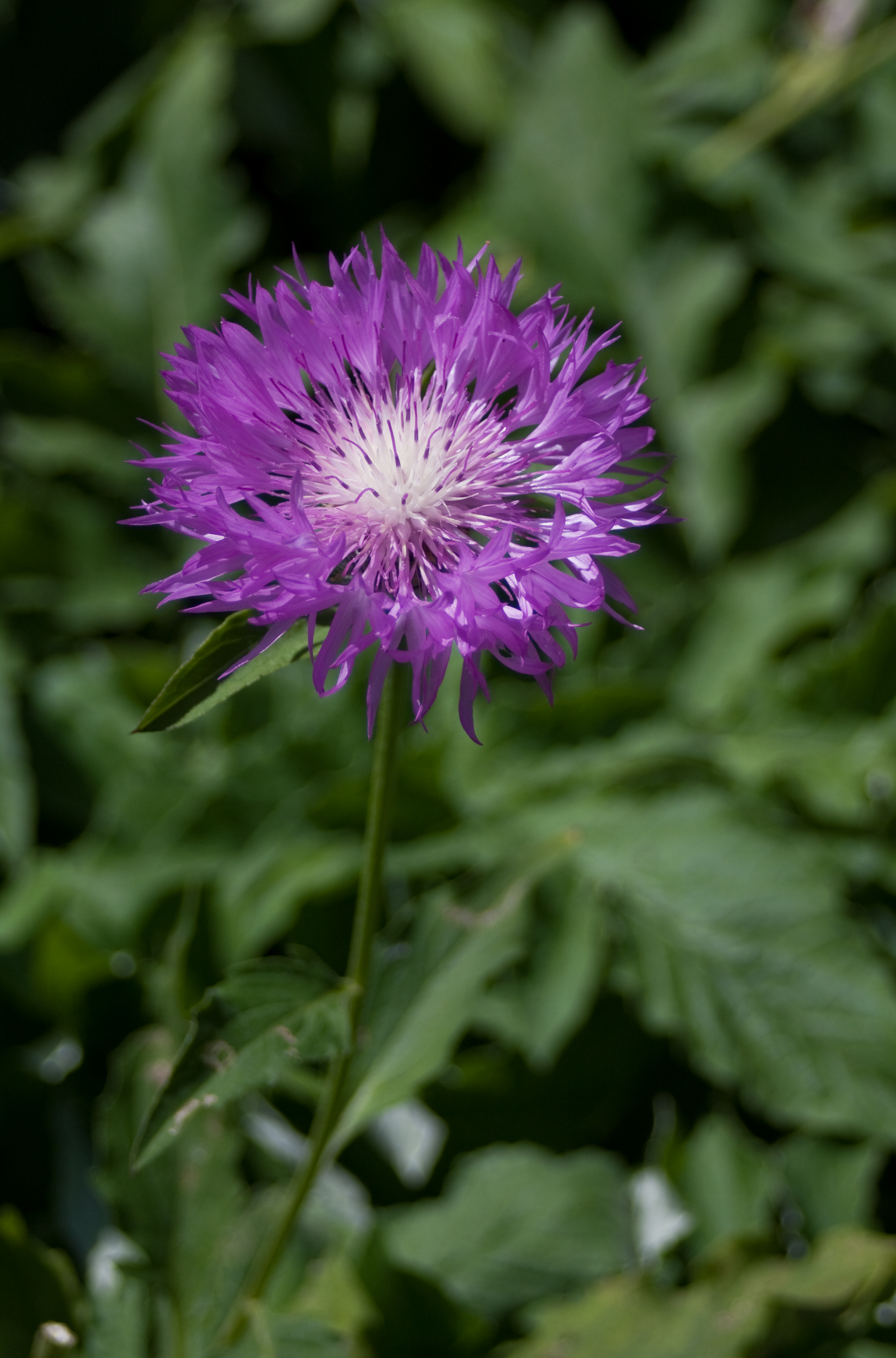 Centaurea dealbata, photographed in the gardens of Forde Abbey, Somerset, UK.